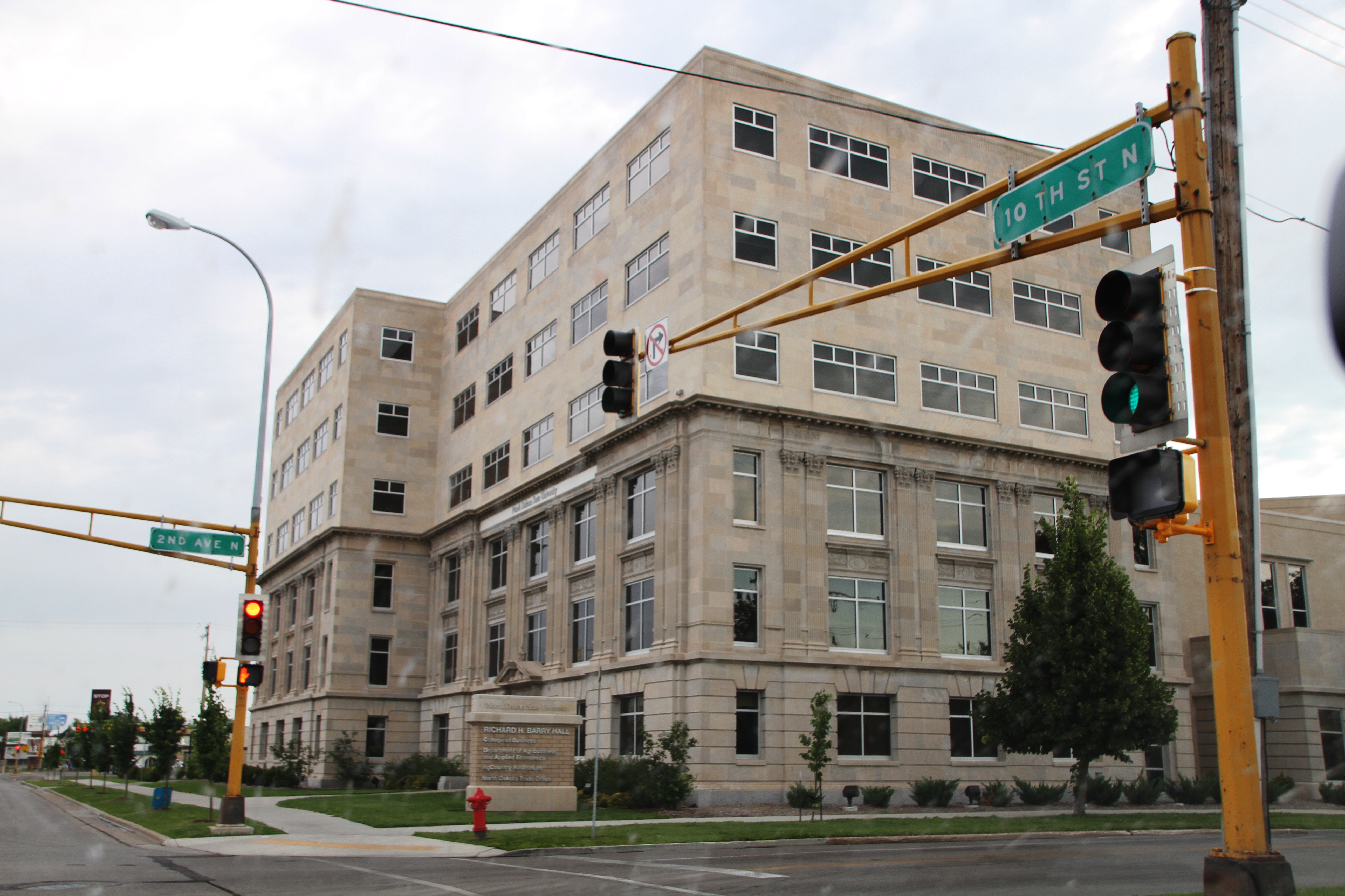 Images from central Fargo, North Dakota.